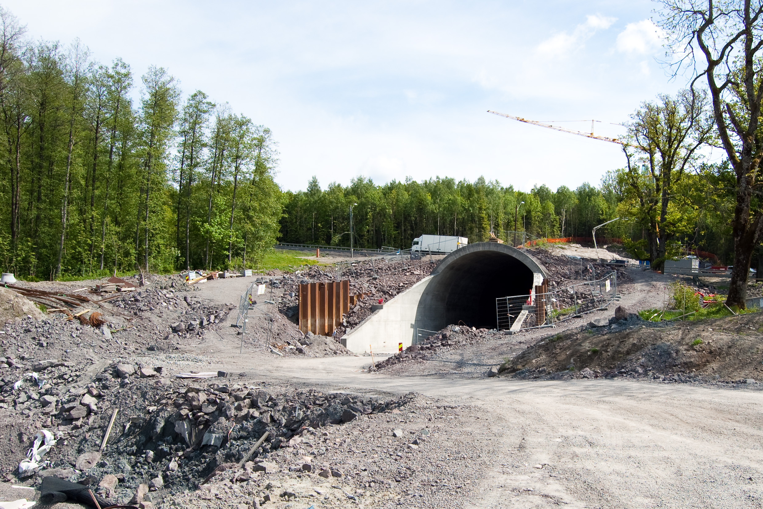 Jarlsbergtunnelen is a railway tunnel under construction in Tønsberg, Vestfold, Norway. It will be part of the Vestfold Line.